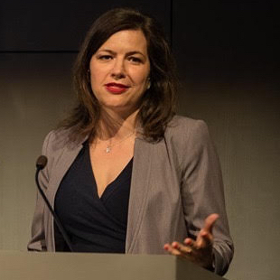 A photograph of Eliza Reid delivering a keynote speech at the Startup Iceland conference, 2019.